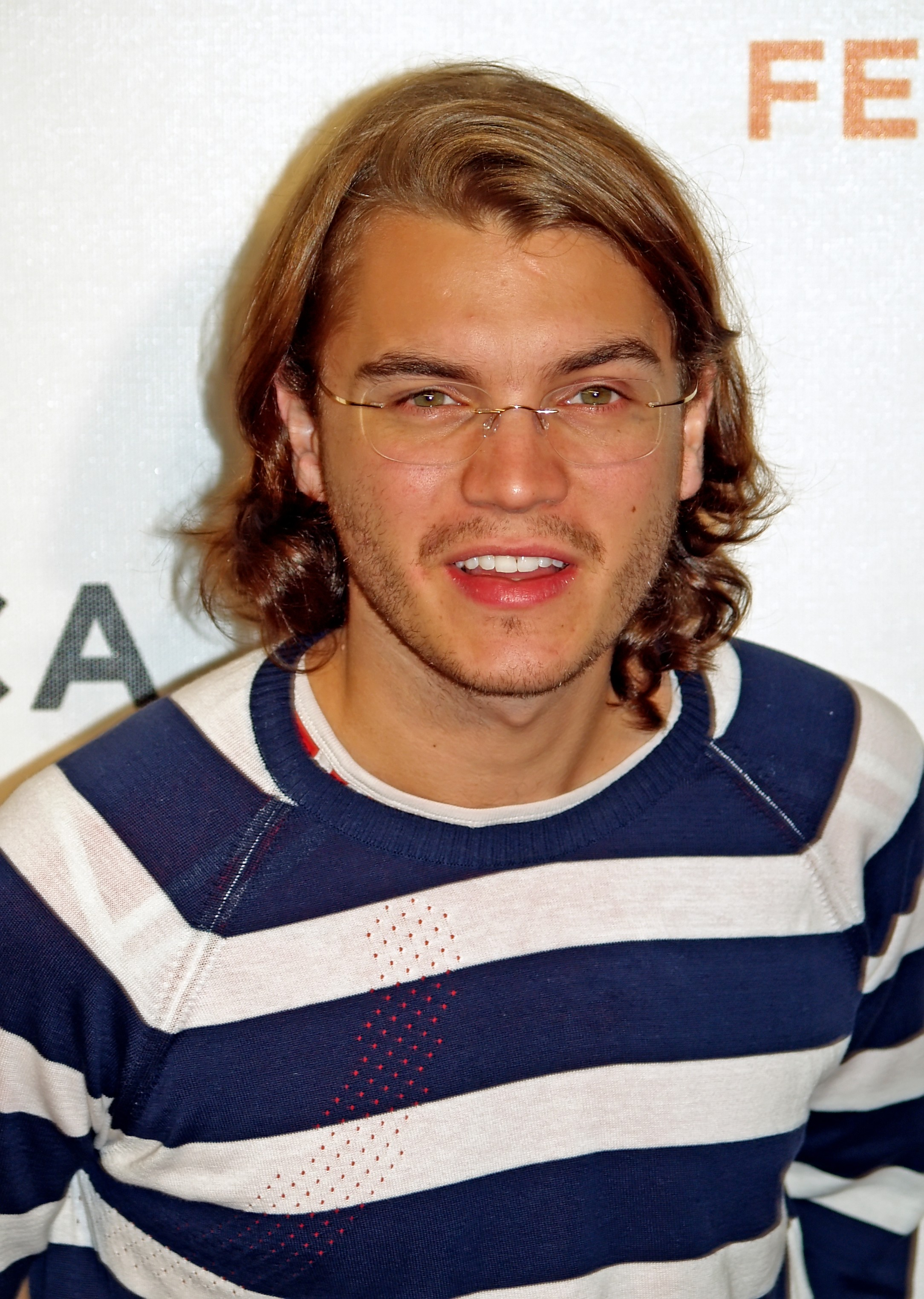 Emile Hirsch at the premiere of Speed Racer at the 2008 Tribeca Film Festival.